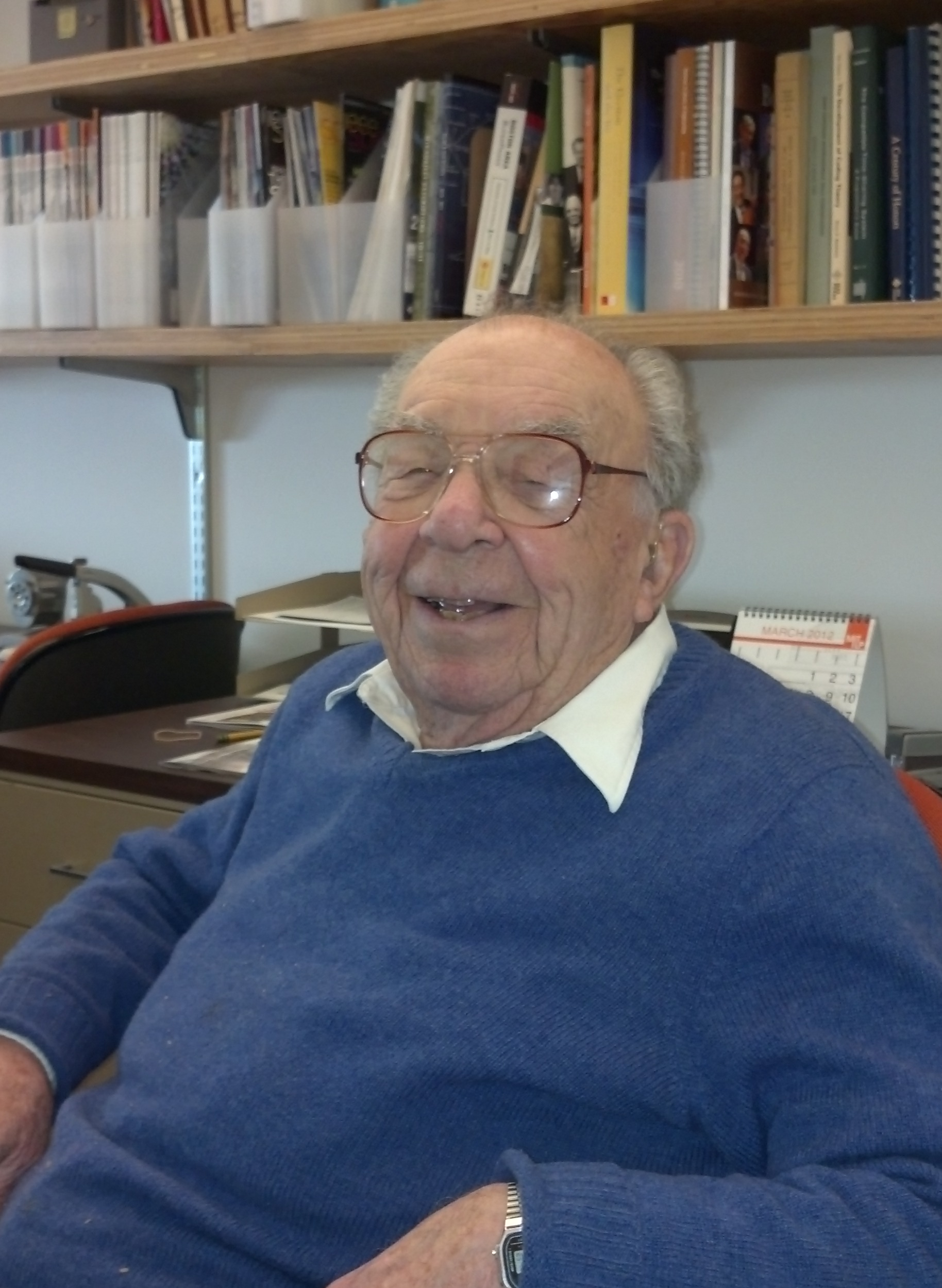 Robert Fano, seated in his office at MIT